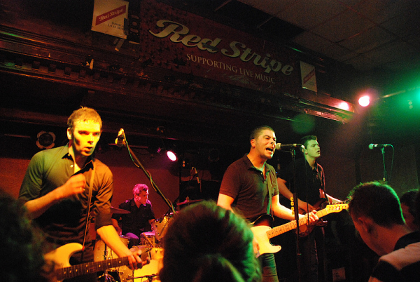 Dead 60s performing at Esquires, Bedford, June 17th 2007 Scouserdave 11:45, 21 June 2007 (UTC)